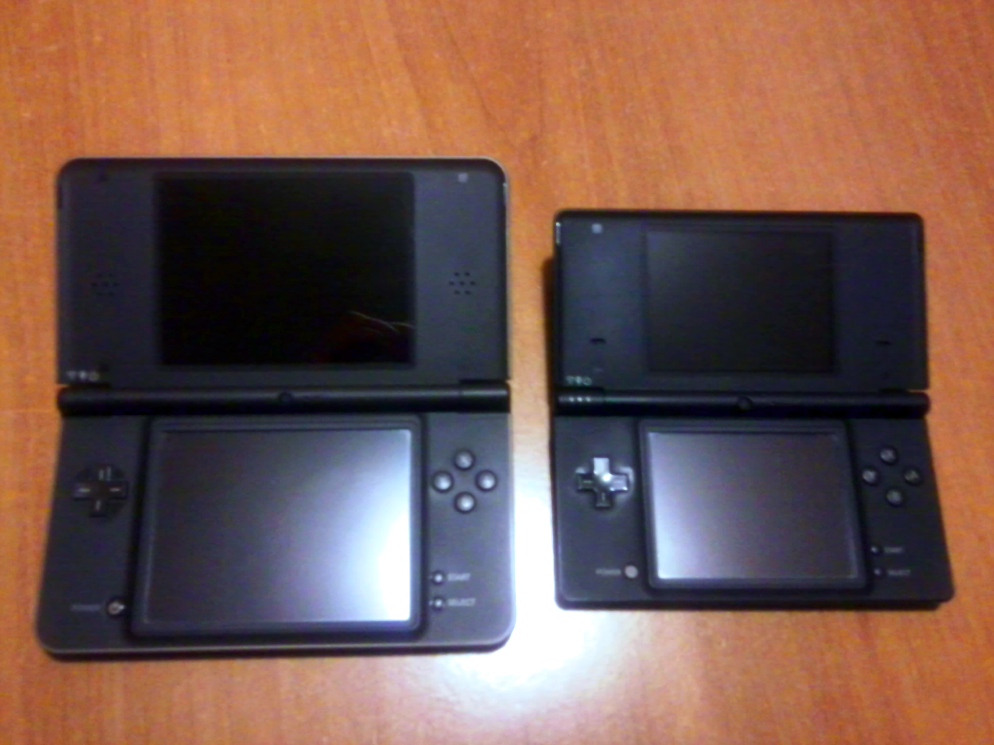 Comparison between Nintendo DSi XL (or LL in Japan) on the left and Nintendo DSi (right)